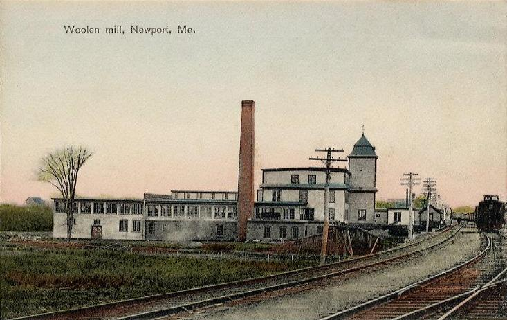 View of woolen mill, Newport, Maine; from a c. 1920 postcard published by the Albertype Company, Brooklyn, New York.